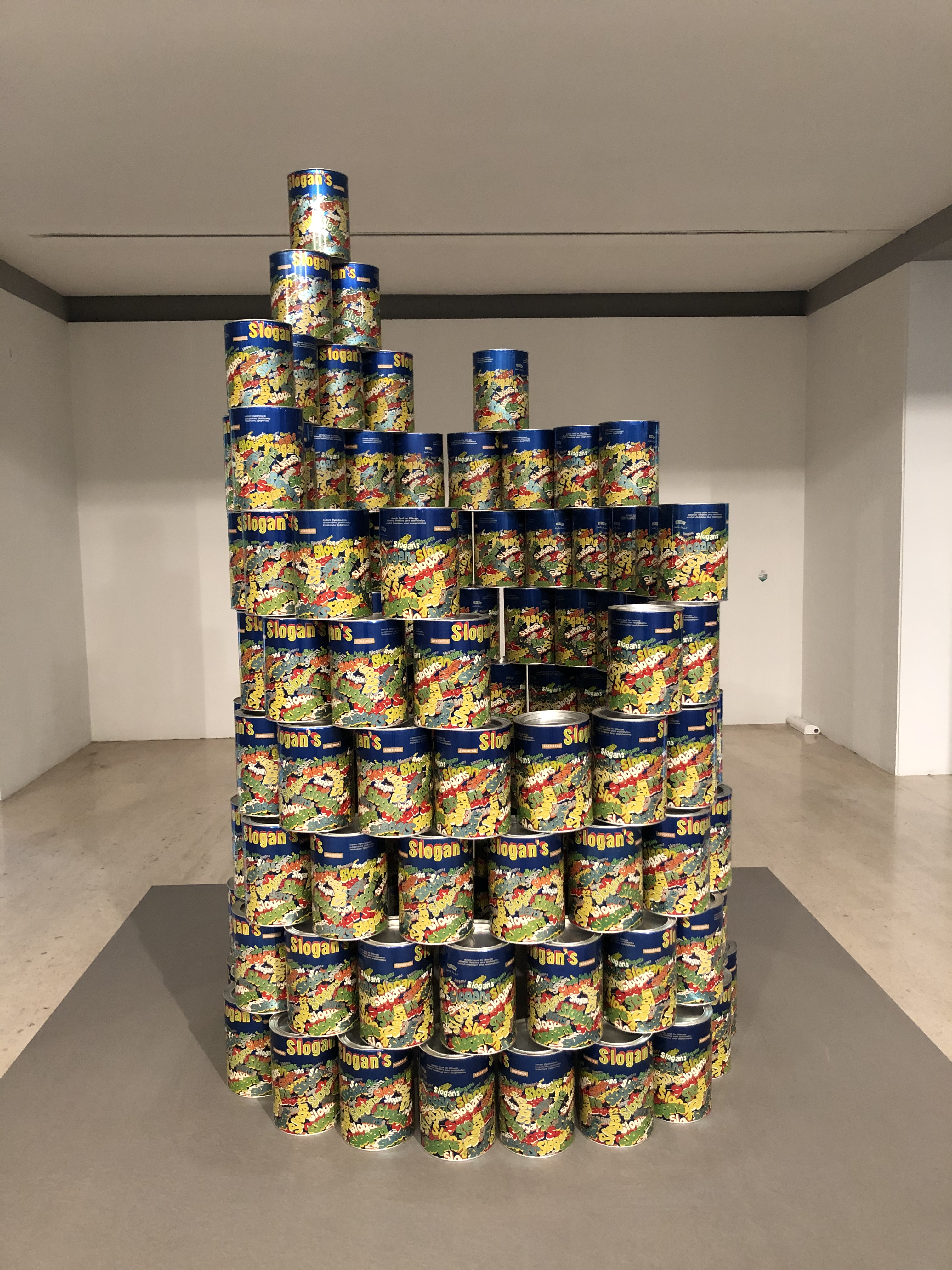 Emília Nadal (n.1938) Slogan's - Diet Food for Illiterate, 1978.